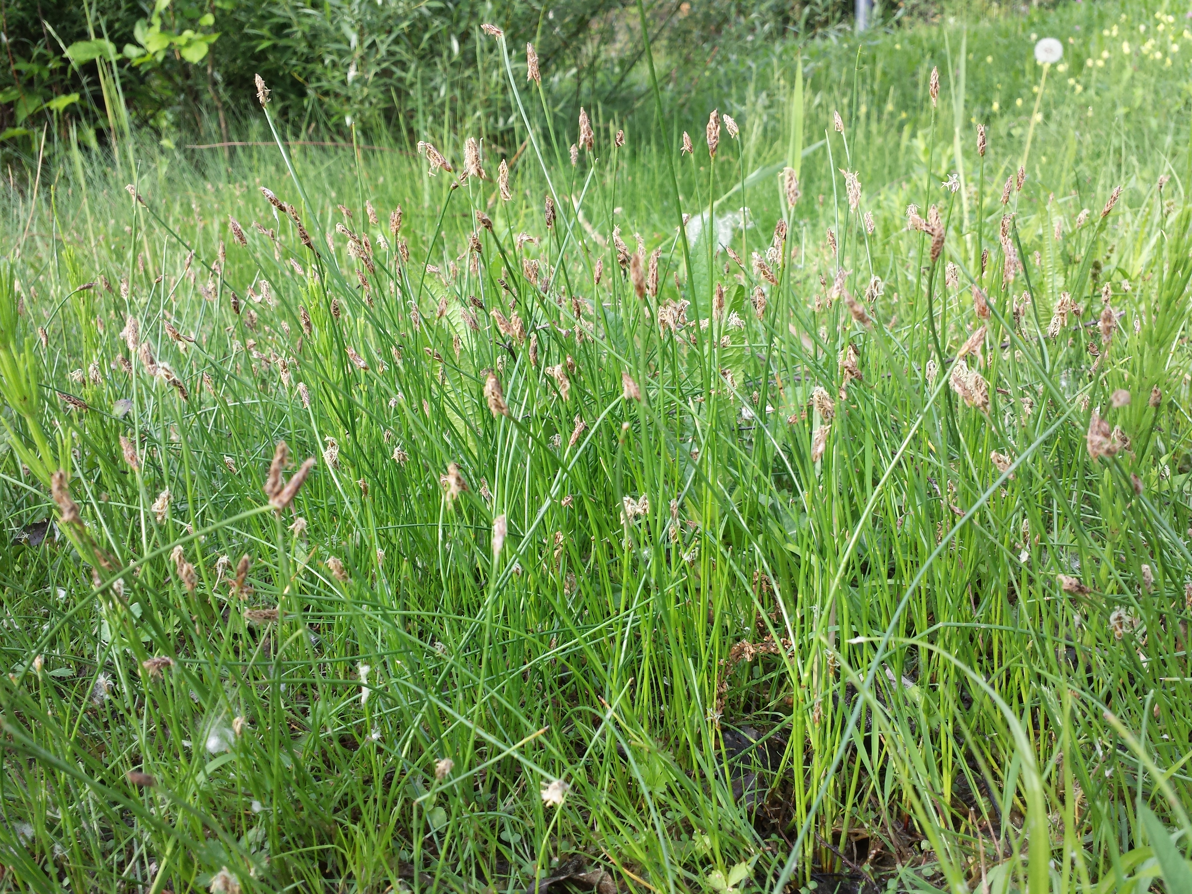 Habitus Taxonym: Eleocharis uniglumis ss Fischer et al. EfÖLS 2008 ISBN 978-3-85474-187-9 Location: "Irissee" in Donaupark, Vienna-Donaustadt - ca. 160 m a.s.l. Habitat: shore of a pond